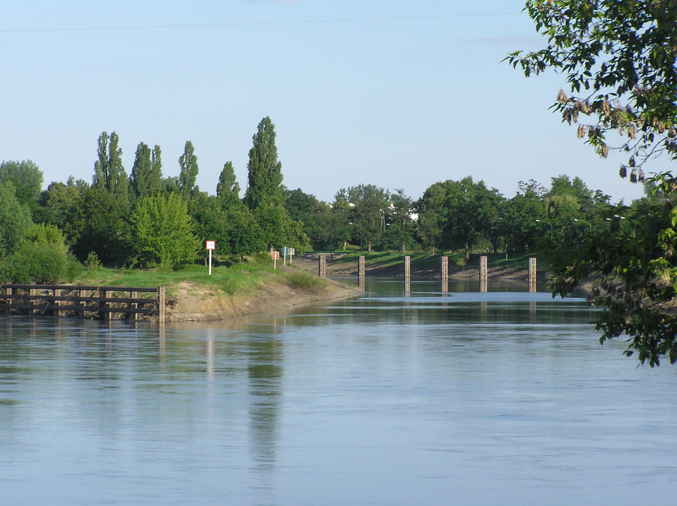 Oława II Lock